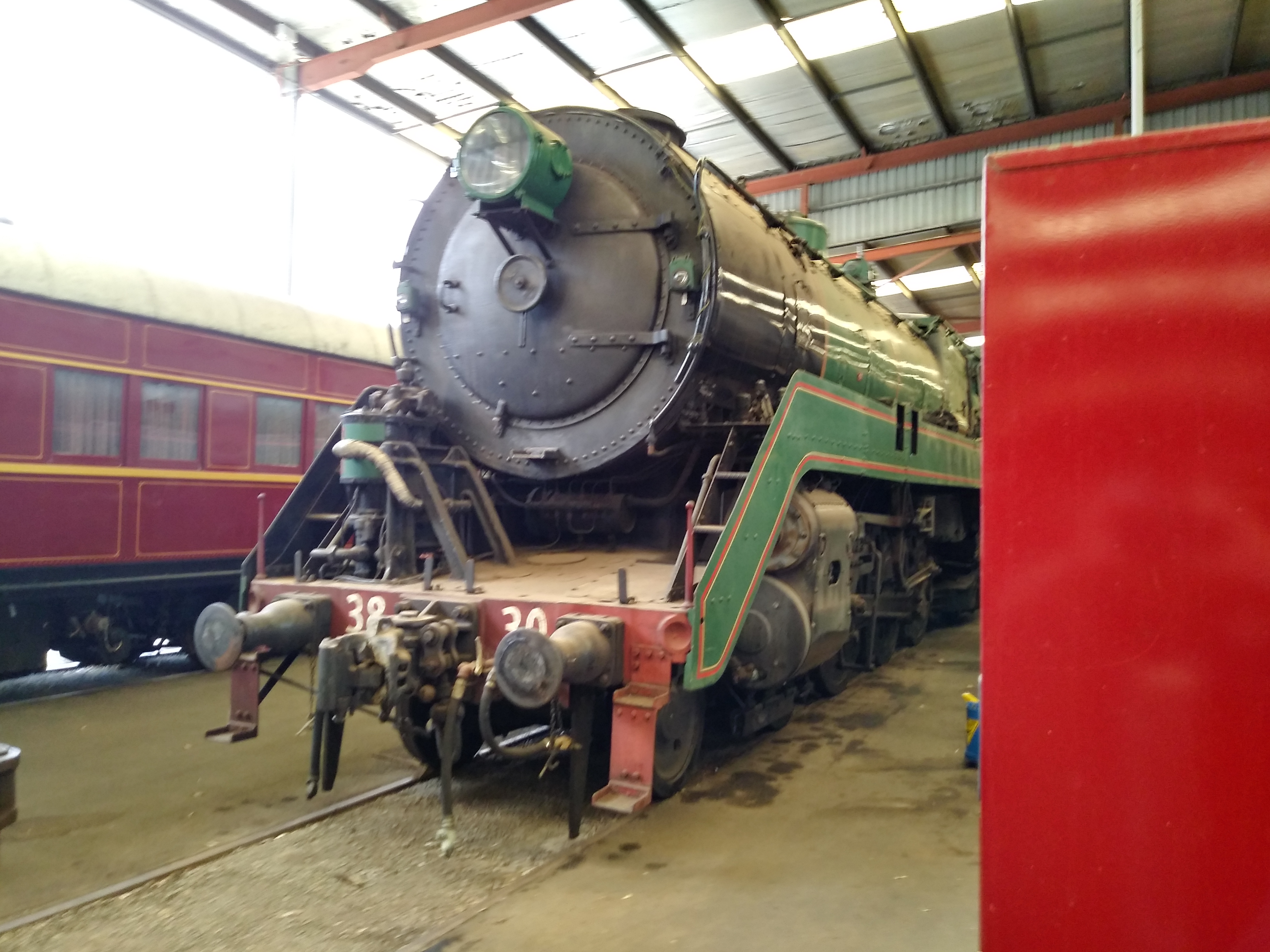 A faded 3830 in storage at Thirlmere